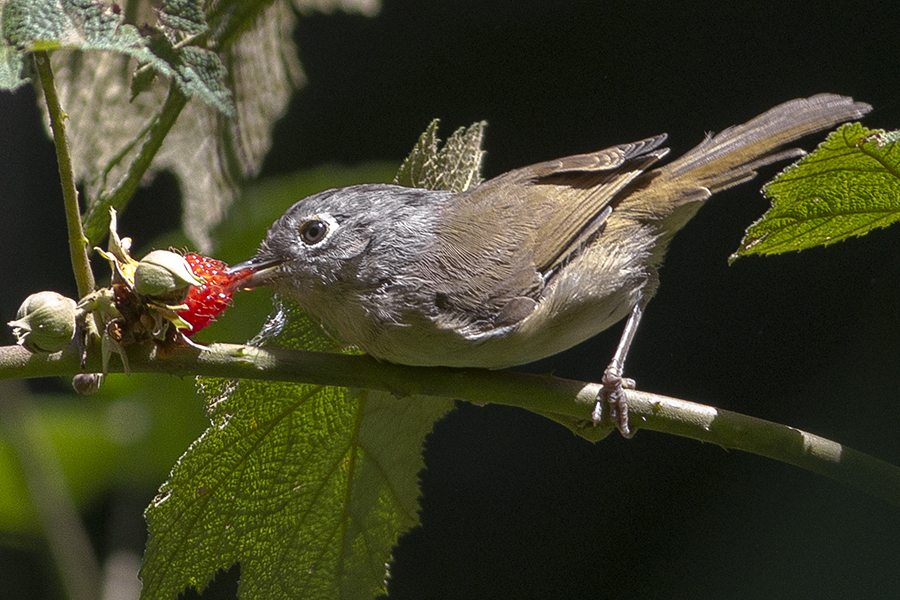 The species Nepal Fulvetta had been photographed at Mahananda Wildlife Sanctuary during GoingWild's birding trip at West Bengal, India on 01.11.2015.